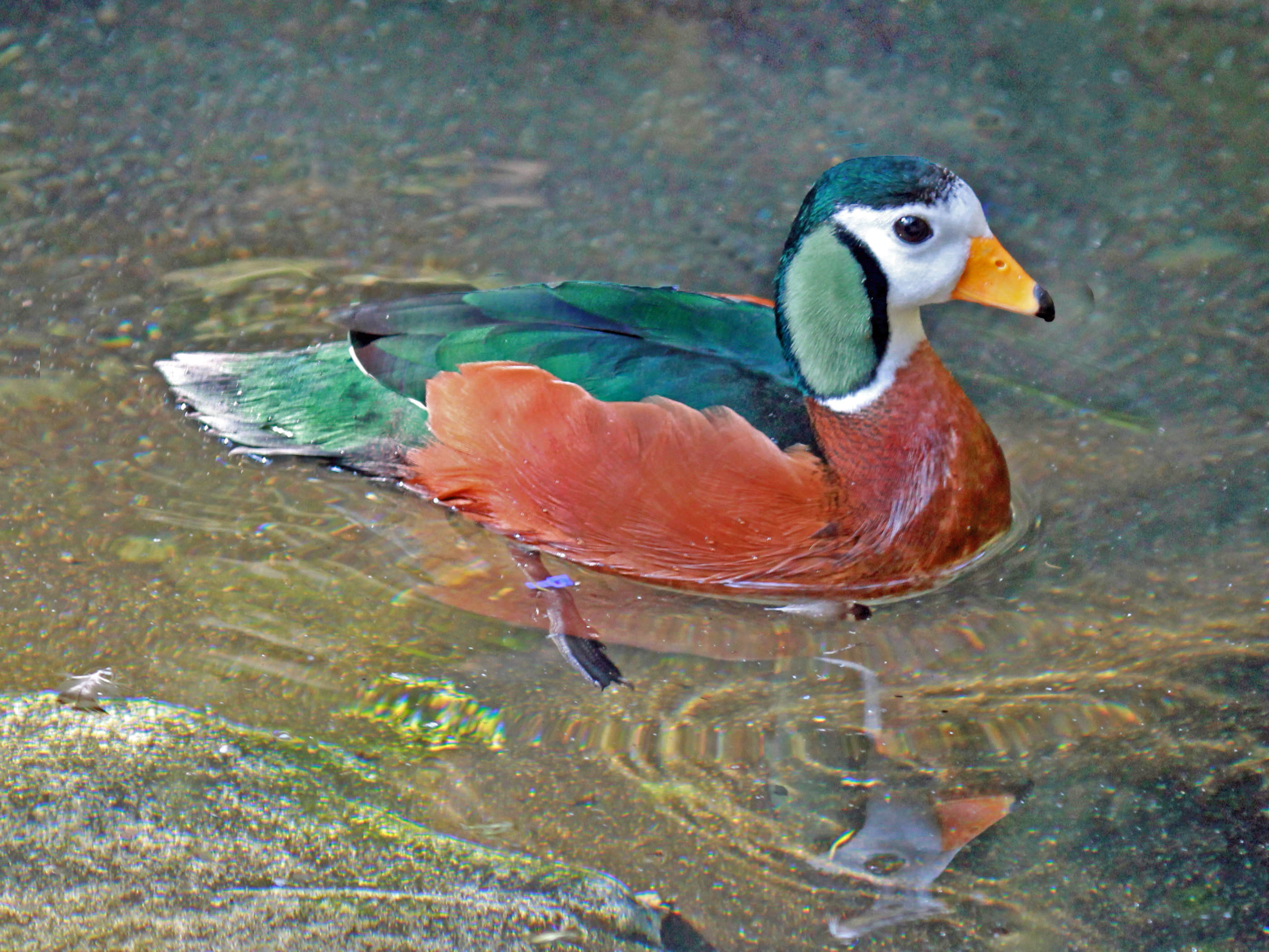 African Pygmy Goose ♂ at the North Carolina Zoo in Ashboro, North Carolina